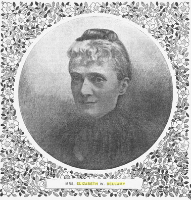 Elizabeth Whitfield Croom